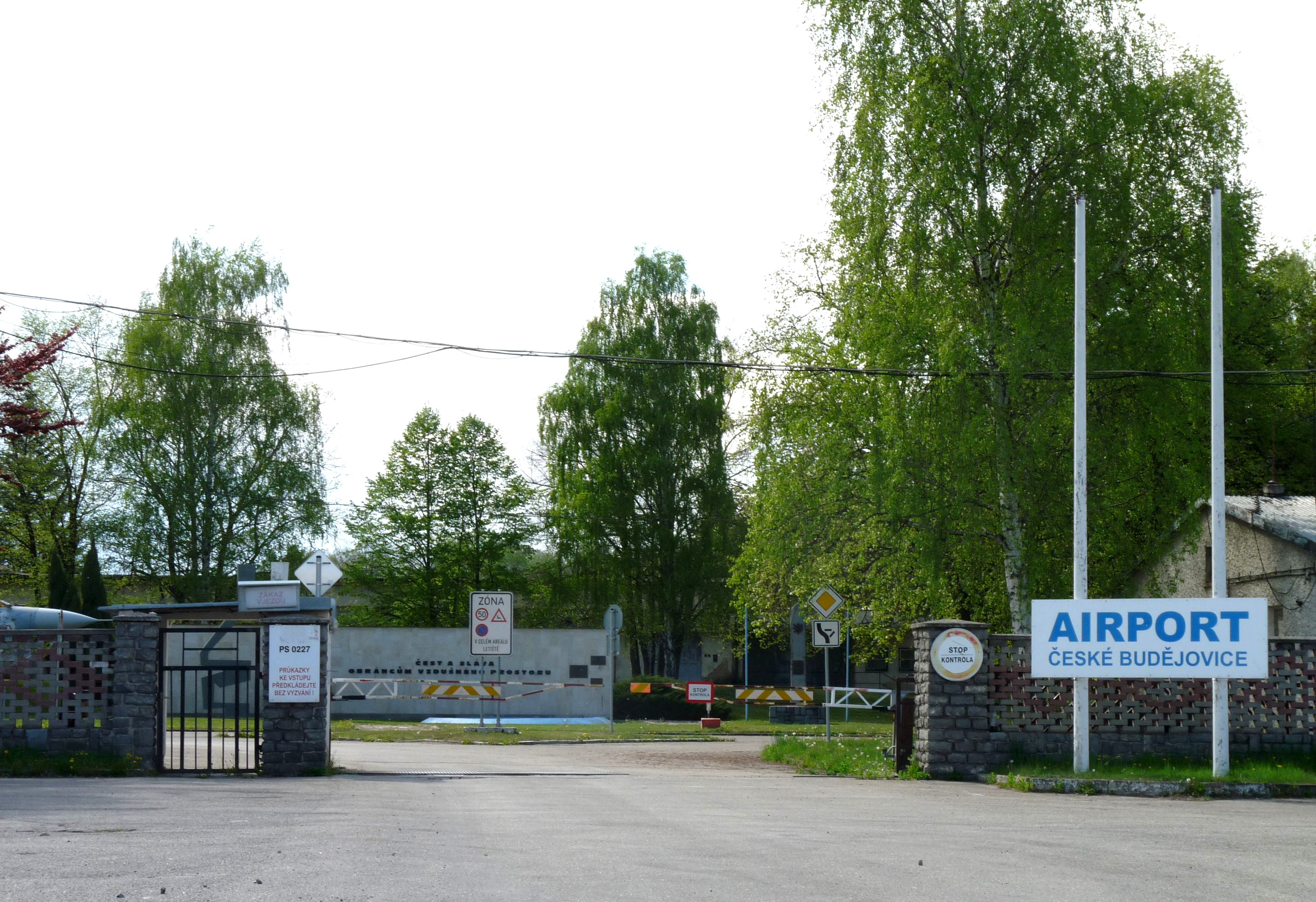 Gate of the airport in the municipality of Planá, České Budějovice, South Bohemian Region, Czech Republic.